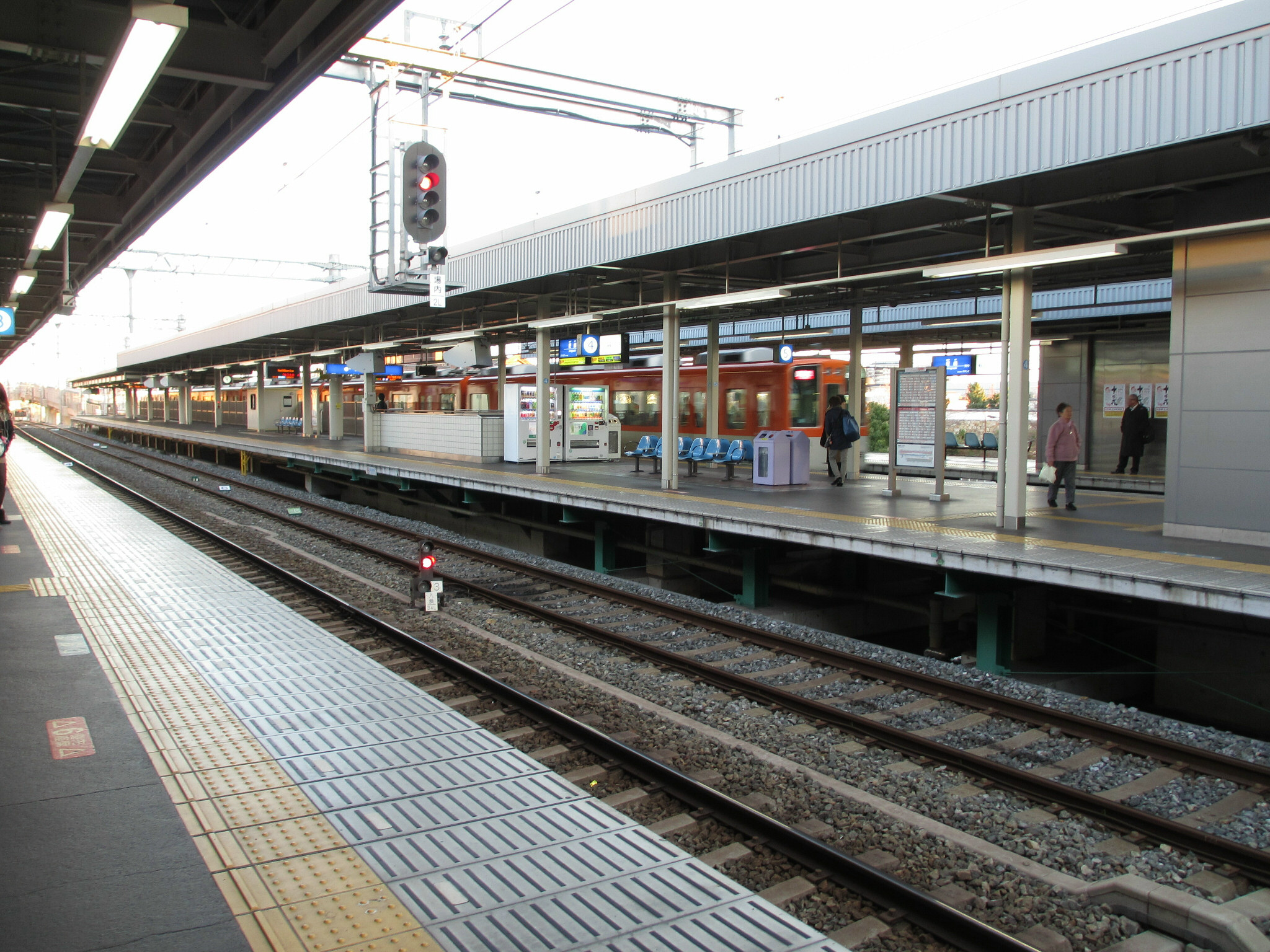 Hanshin Amagasaki Station platform